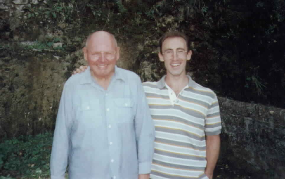 Father Reginald Foster (* 1939) and A. Gratius Avitus (* 1968) at the “Aestiva Romae Latinitas” of 1998.